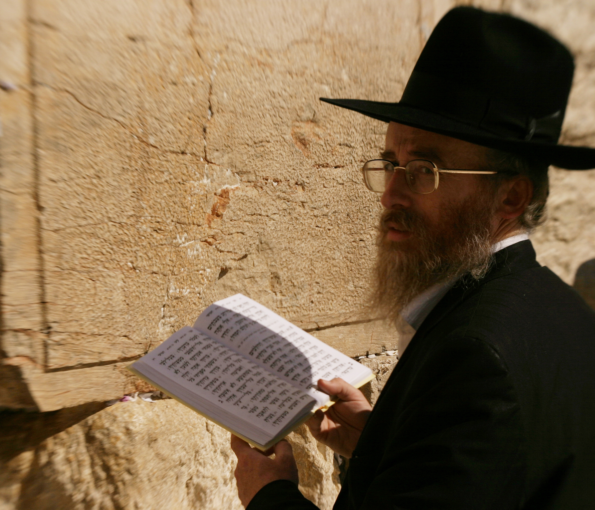 Man reading Psalms at the Western Wall. Jerusalem, March 2007